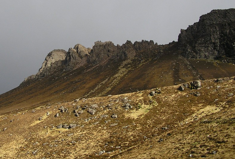 Crest of Stac Pollaidh, seen from below. Taken by User:Grinner on 4th April 2005.